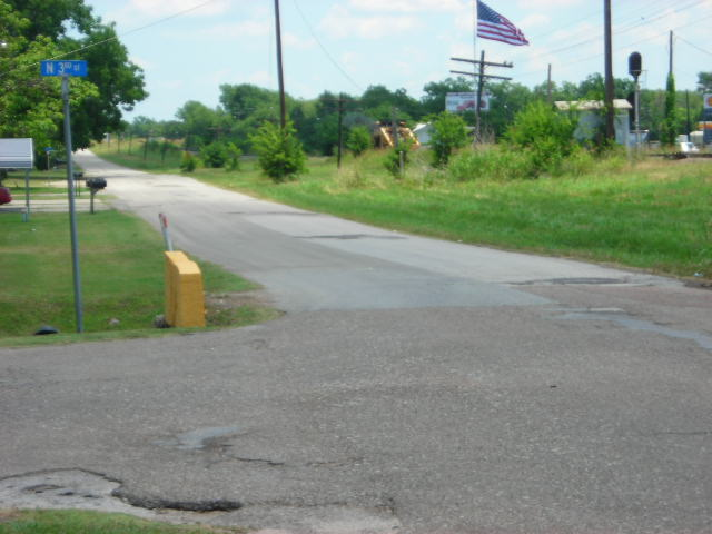 Old Highway 80 (now Commerce Street) in Wills Point, Tx. Photo by Danny Burton 06/05/06.